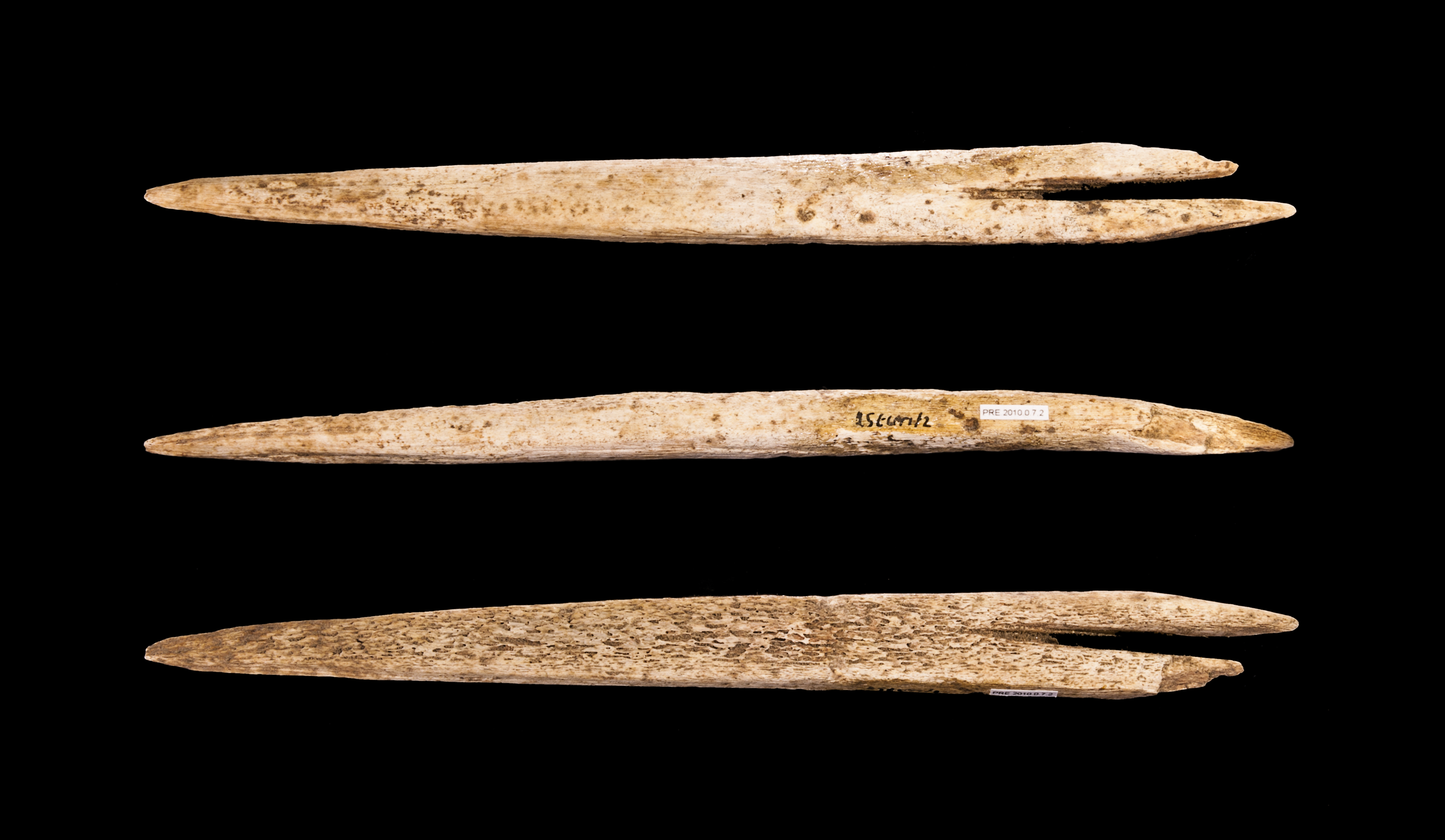 Javelin head with fork-based point, currently forming. Stage : Later Magdalenian (V et VI) (to – 12000 to - 10000 Before the Current Era) Locality : Isturitz cave, Isturits, Pyrénées-Atlantiques, France Former collection of René de Saint-Périer (1877 - 1950) Different views of the same specimen - Muséum of Toulouse MHNT.PRE.2010.0.7.2 Size : 147x14x9 mm